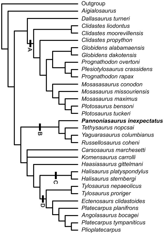 Strict consensus tree from phylogenetic analysis.Consensus tree from three most parsimonious trees (length = 374, CI = 0.4679, RI = 0.7375, HI = 0.5508) based on taxon-character matrix of 135 morphological characters and 32 taxa of mosasauroids. A: Mosasaurinae. B: Tethysaurinae. C: Halisaurinae. D: Tylosaurinae+Plioplatecarpinae.